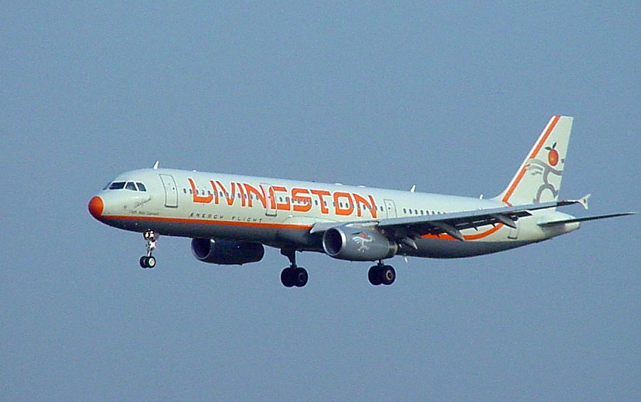 Livingston Airbus A321.